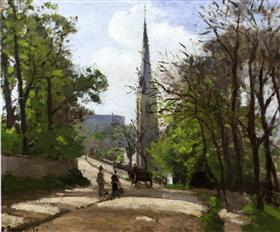 Work by Camille Pissarro